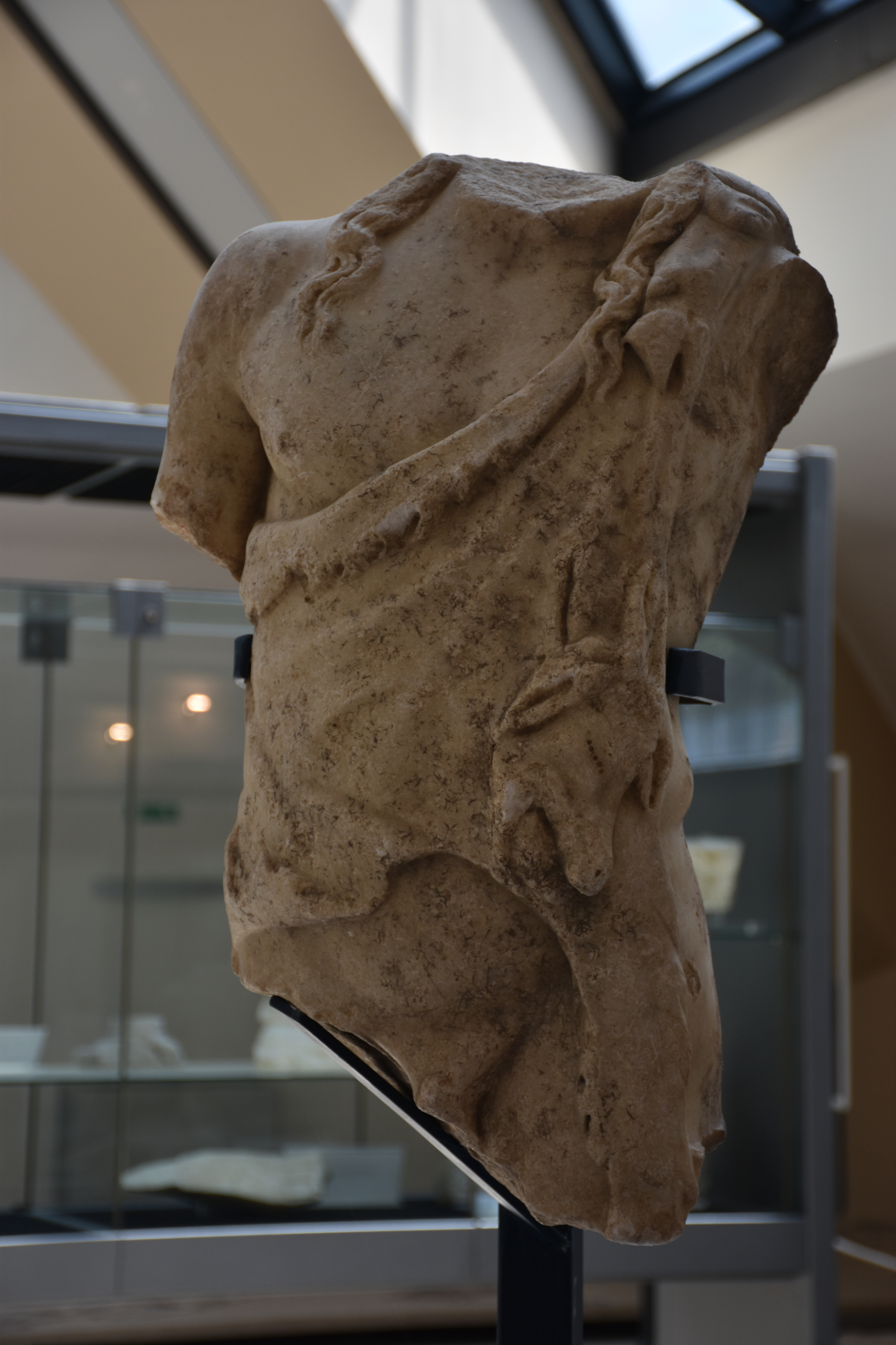 This is a photo of a monument which is part of cultural heritage of Italy.